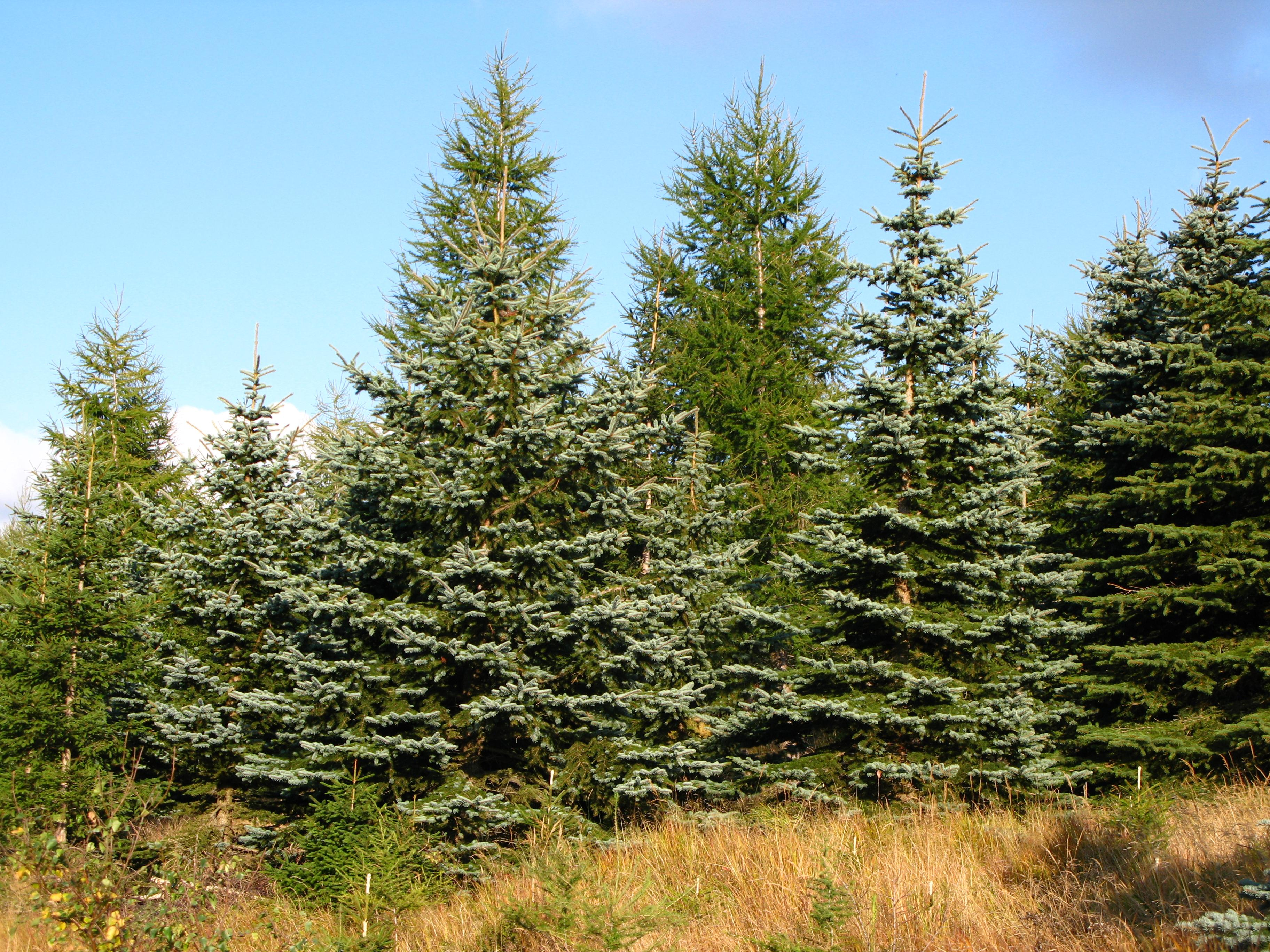 Picea pungens var. glauca in Karkonosze, Poland